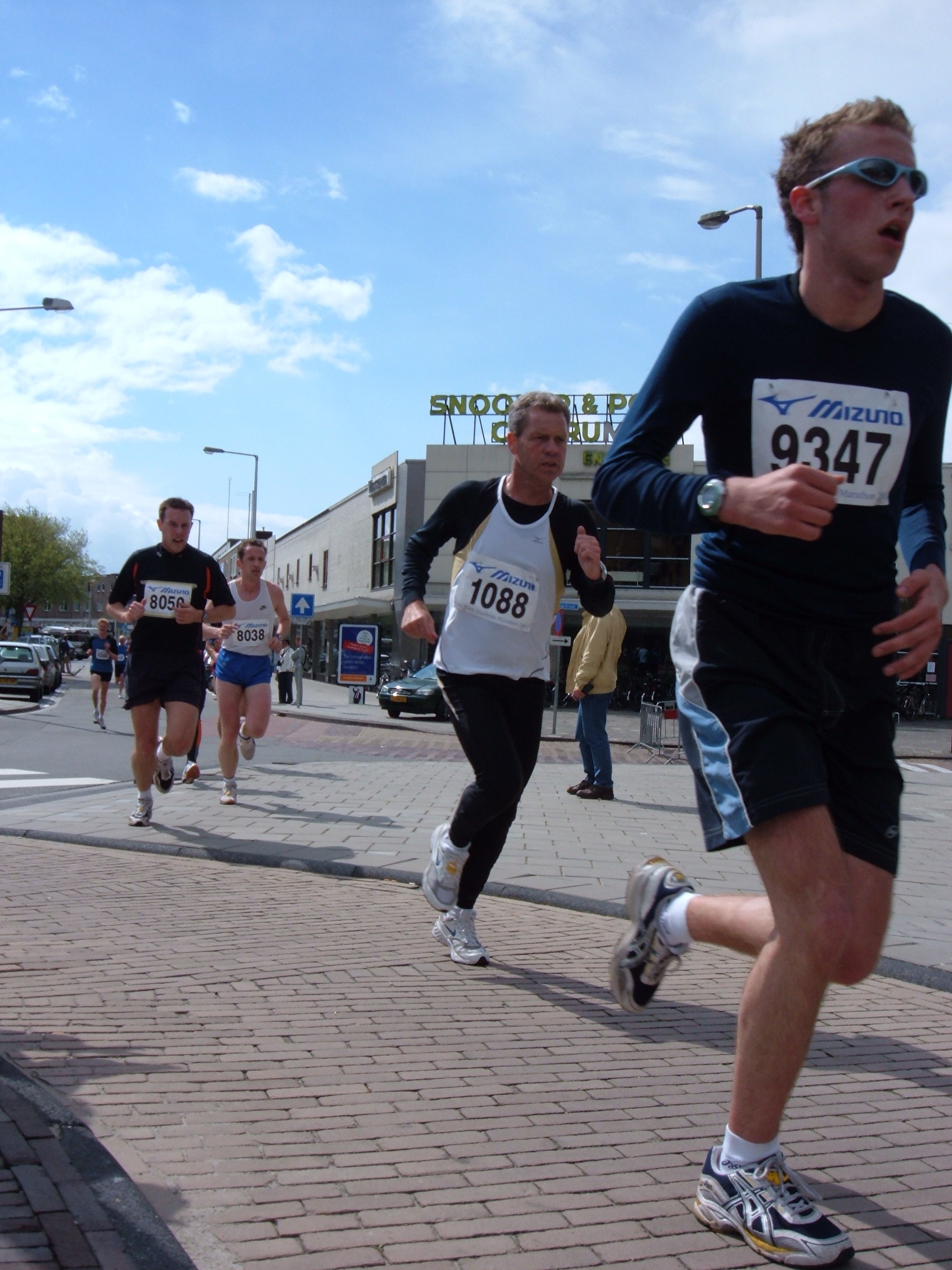 Competitors in the amateur events of the Marathon of Enschede in May 2005. This is the 10km for amateurs.